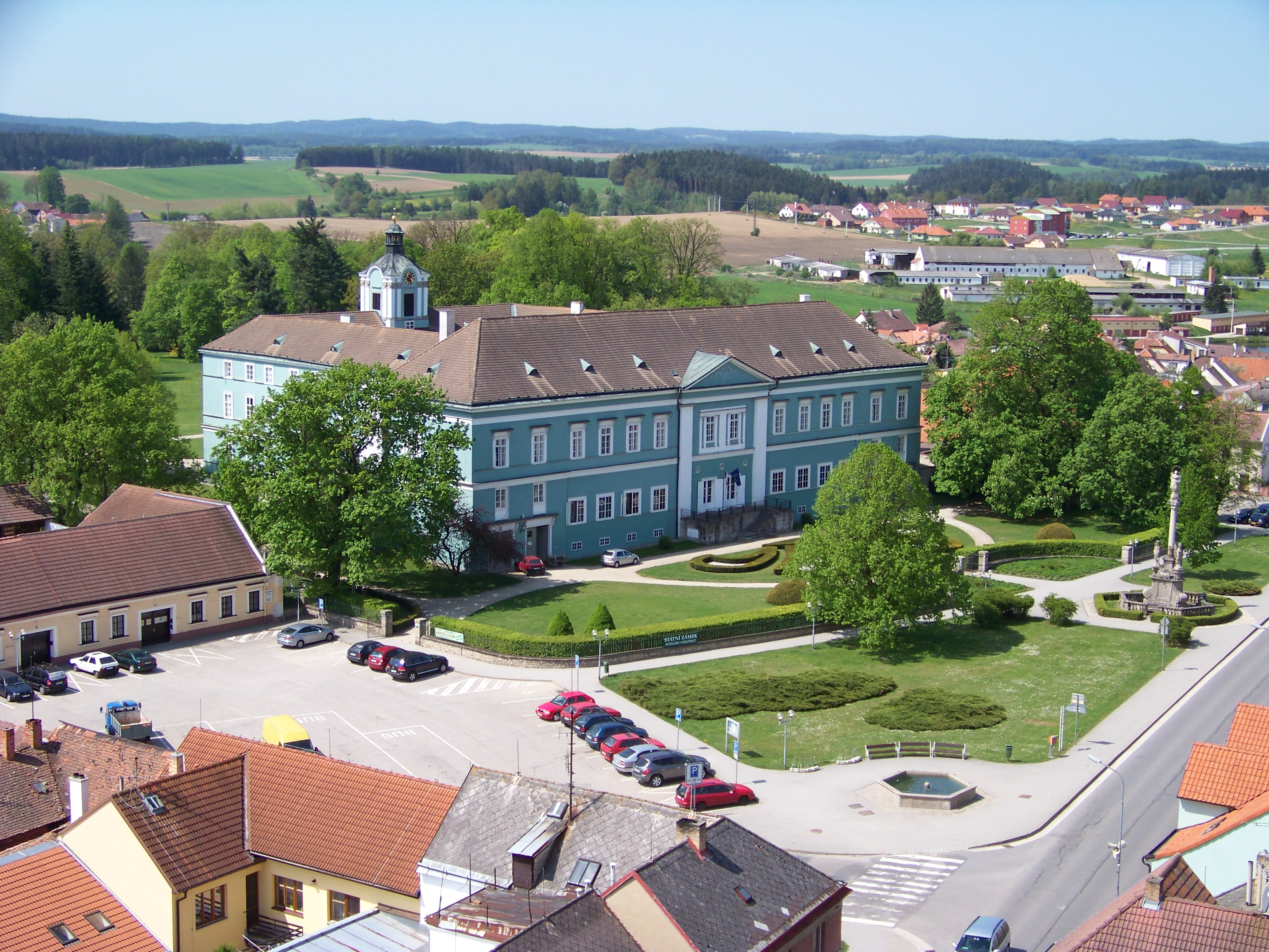 Dačice, South Bohemian Region, the Czech Republic. A view from city tower.